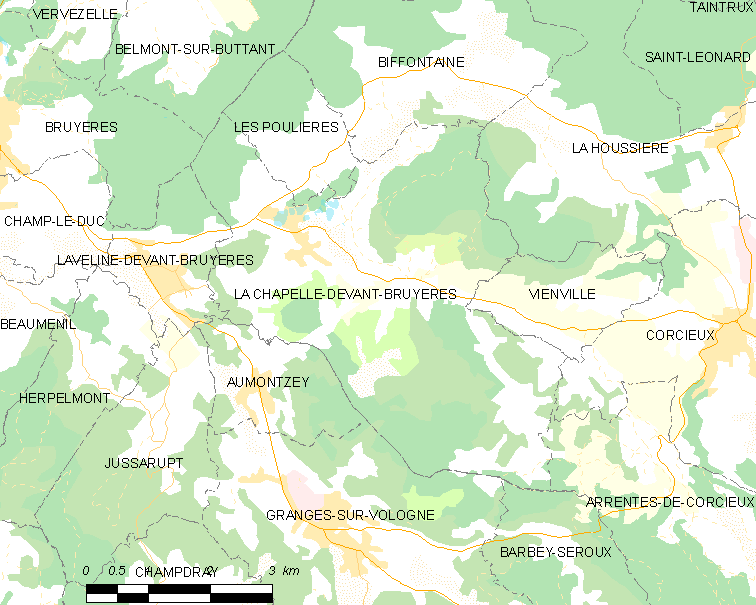 Map of French municipality La Chapelle-devant-Bruyères